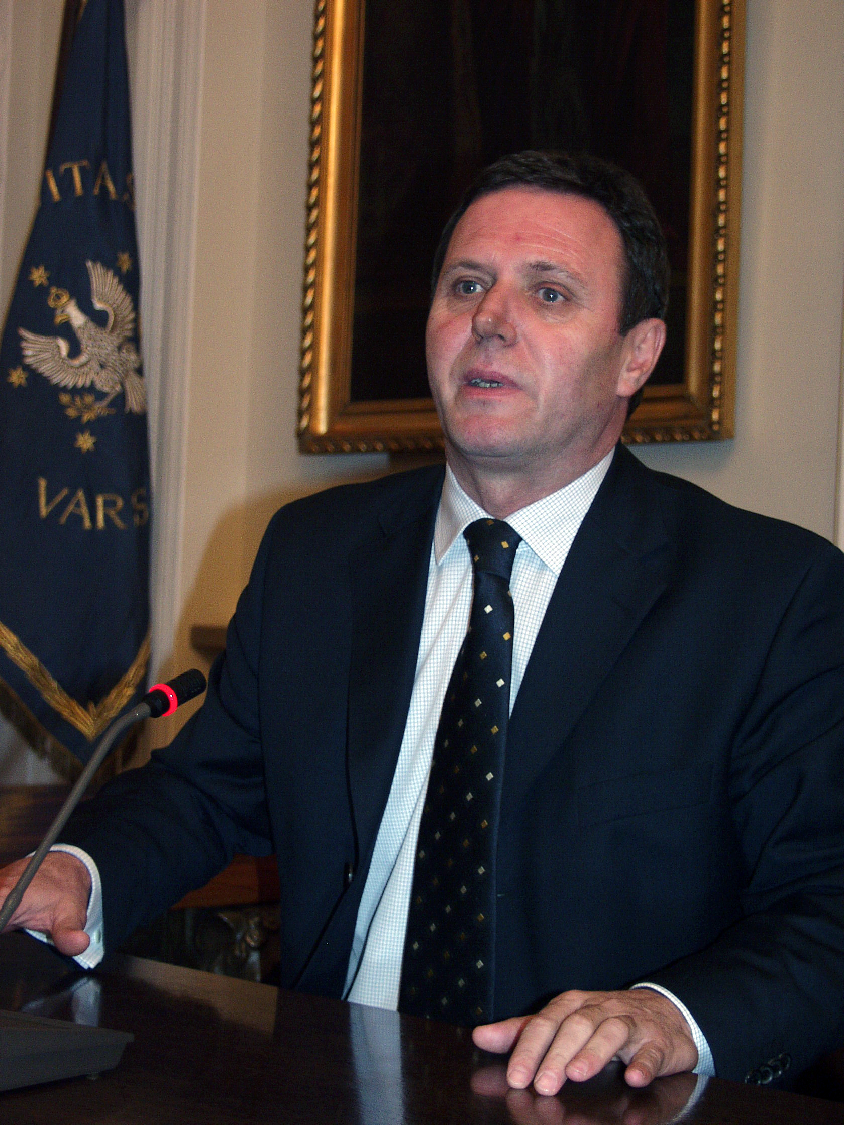 Dragan Kujovic